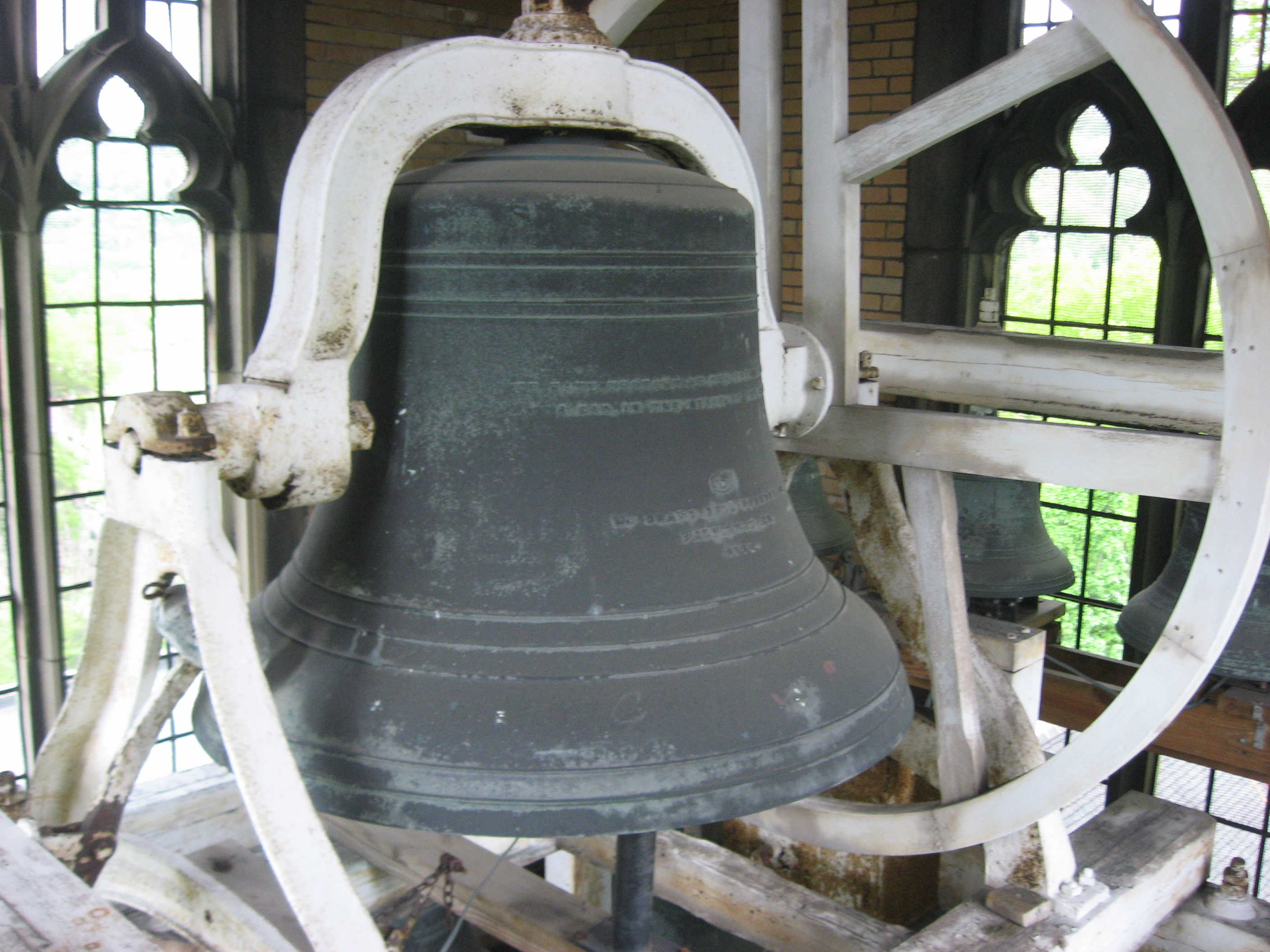 Interior of the bell tower of McCartney Library, with the main bell tower at the center and some of the bells of the carillon in the background. McCartney is located on the campus of Geneva College in College Hill, Beaver Falls, Pennsylvania, United States. Picture taken during library-authorized tour.